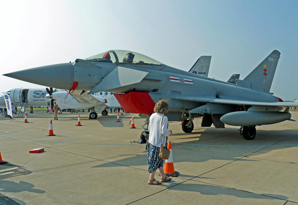 Typhoon FGR.4 ZJ914 of 41 Squadron RAF at RAF Waddington in 2013